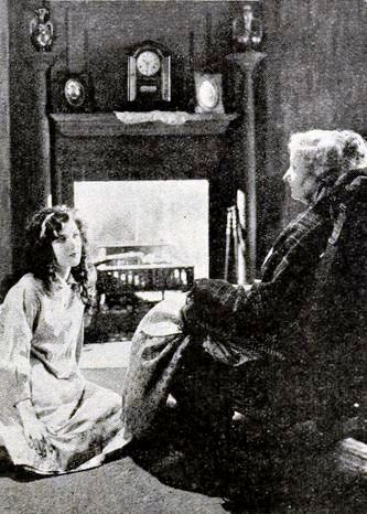 Still from the American film Human Hearts (1922) with Mary Philbin and Gertrude Claire, on page 11 of the October 7, 1922 Universal Weekly.